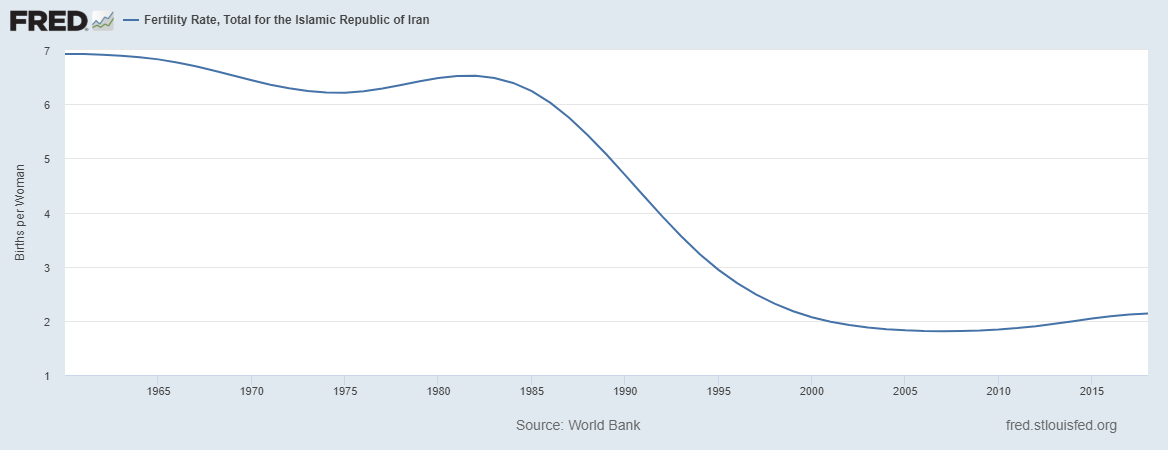 Total fertility rate represents the number of children that would be born to a woman if she were to live to the end of her childbearing years and bear children in accordance with current age-specific fertility rates.